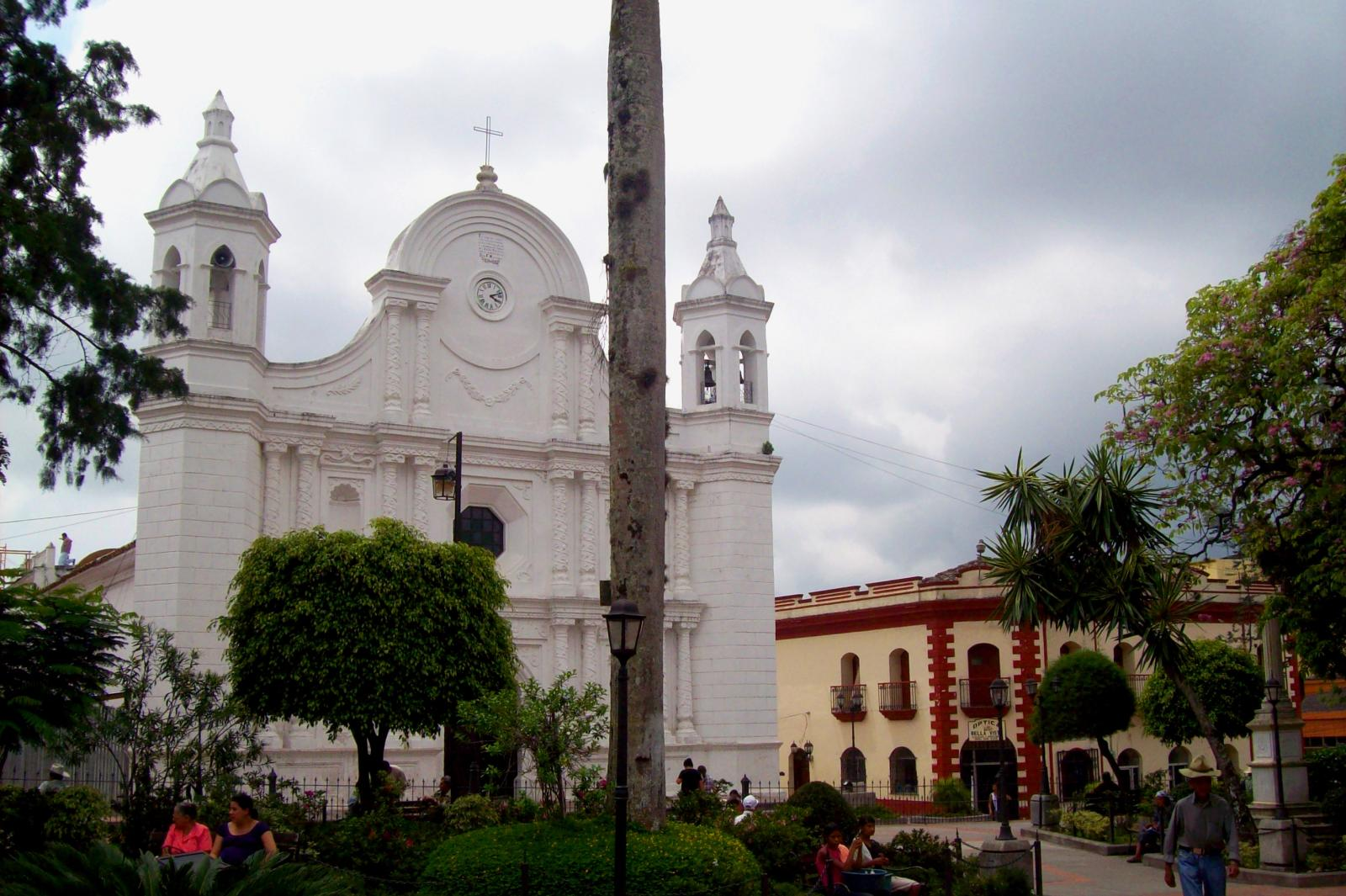 Santa Rosa de Copán Cathedral